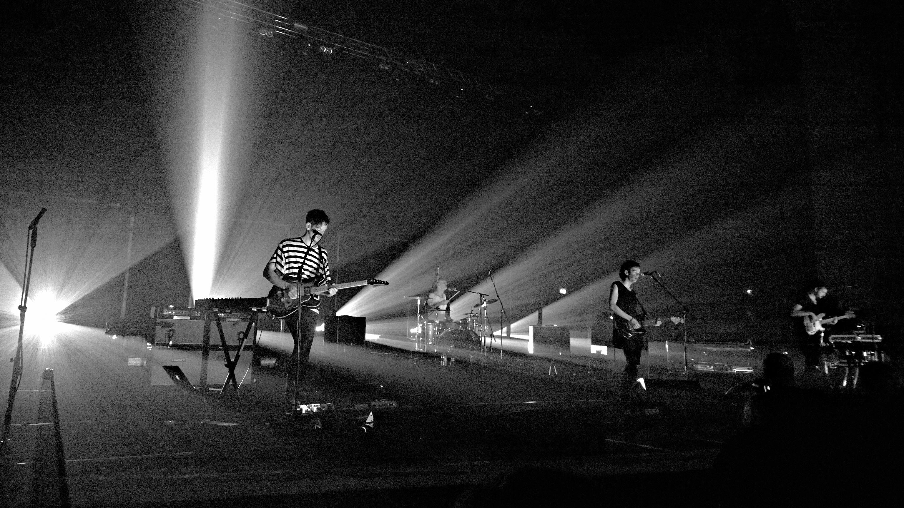 The 1975, Brixton Academy, 10/01/2014